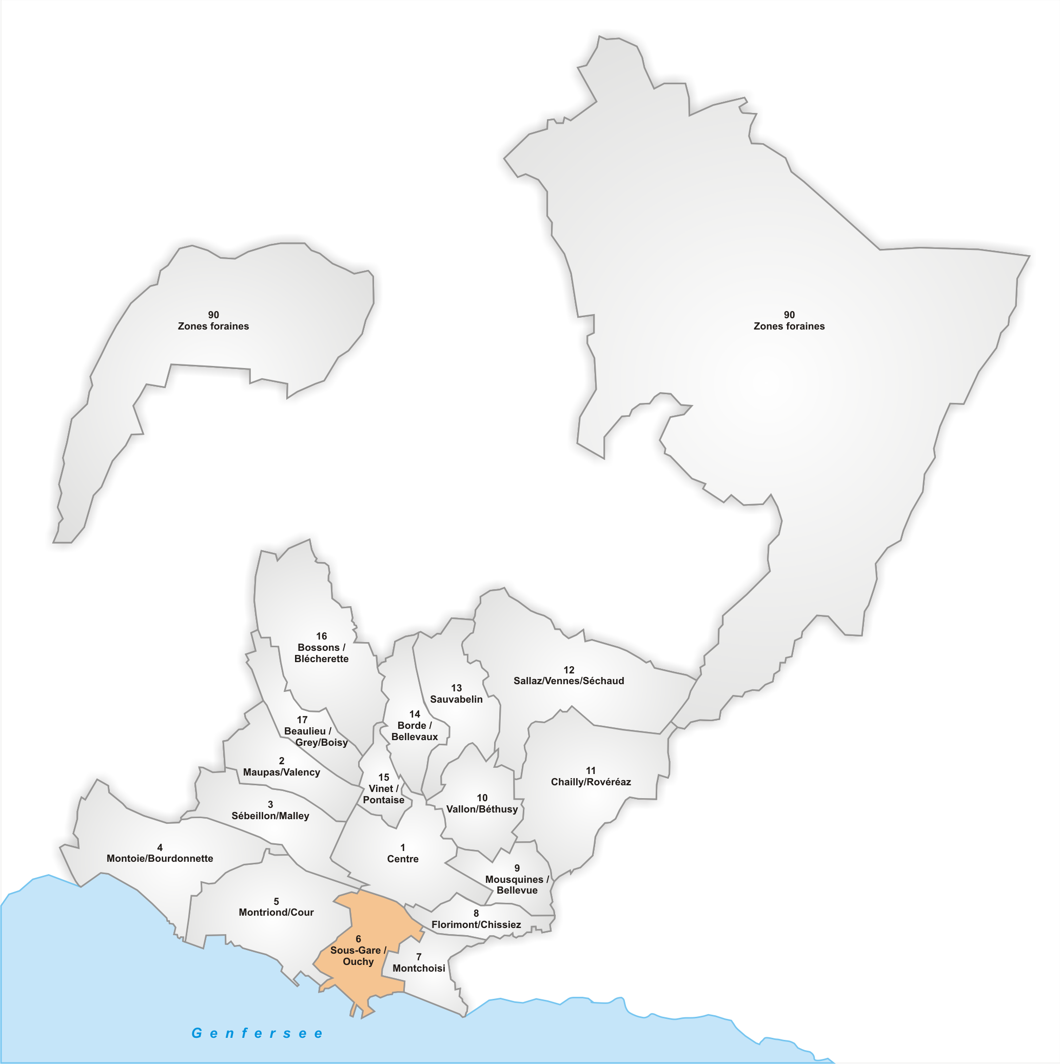 Lausanne Quarter 6